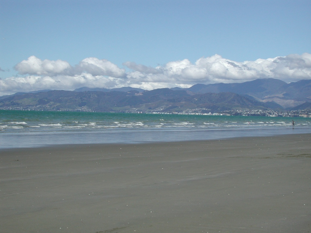 Beach on Rabbit Island near Nelson, with Nelson in the distance